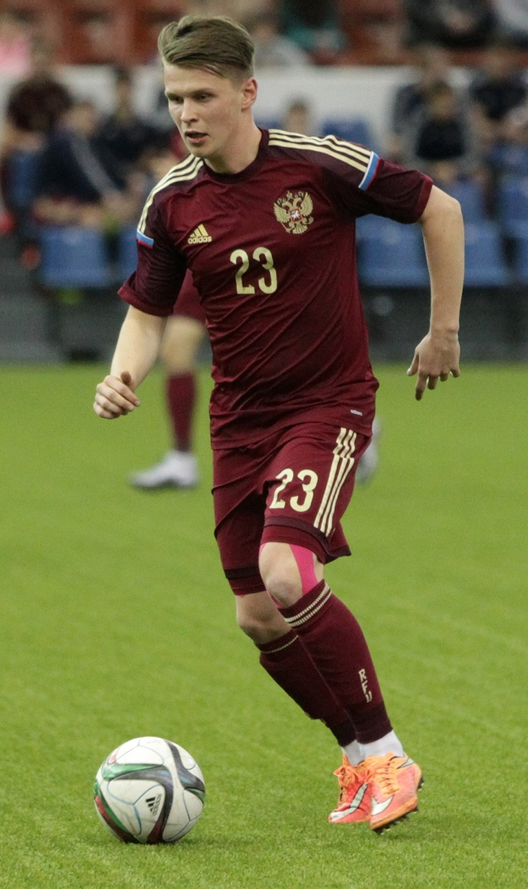 Nikita Salamatov playing for Russia U-21 against Latvia U-21 on 19 January 2016.